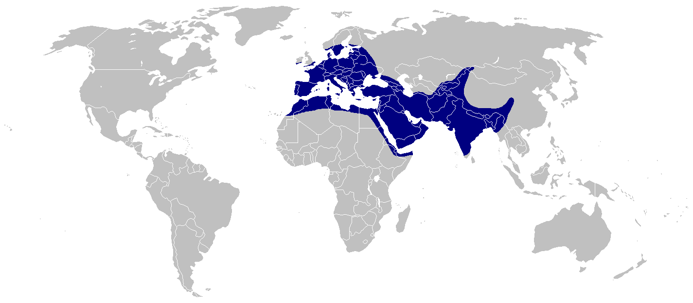 Distribution map of the Black Redstart.